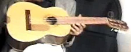 Armonico